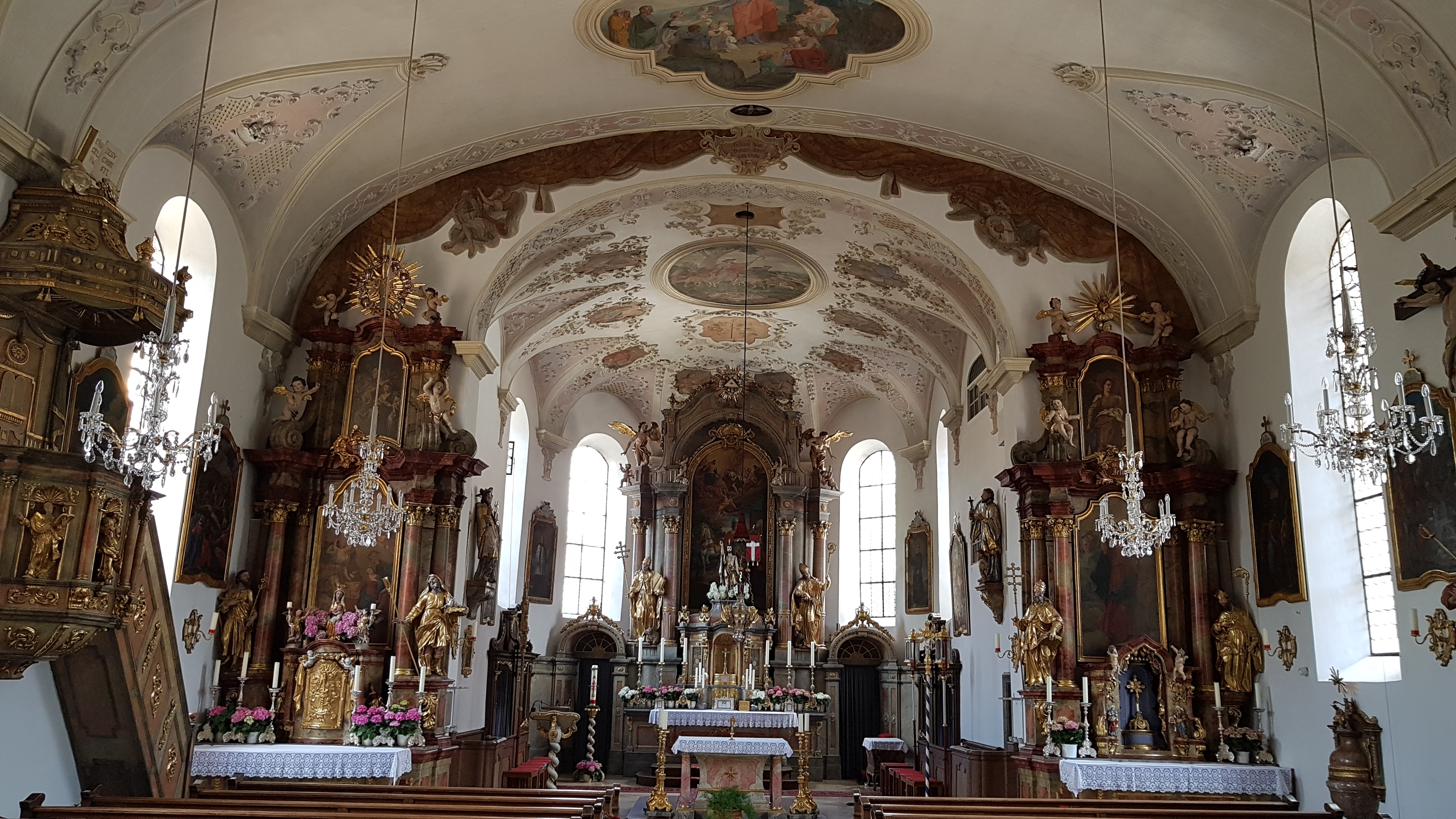 St. Martin Bad Kohlgrub, Interior